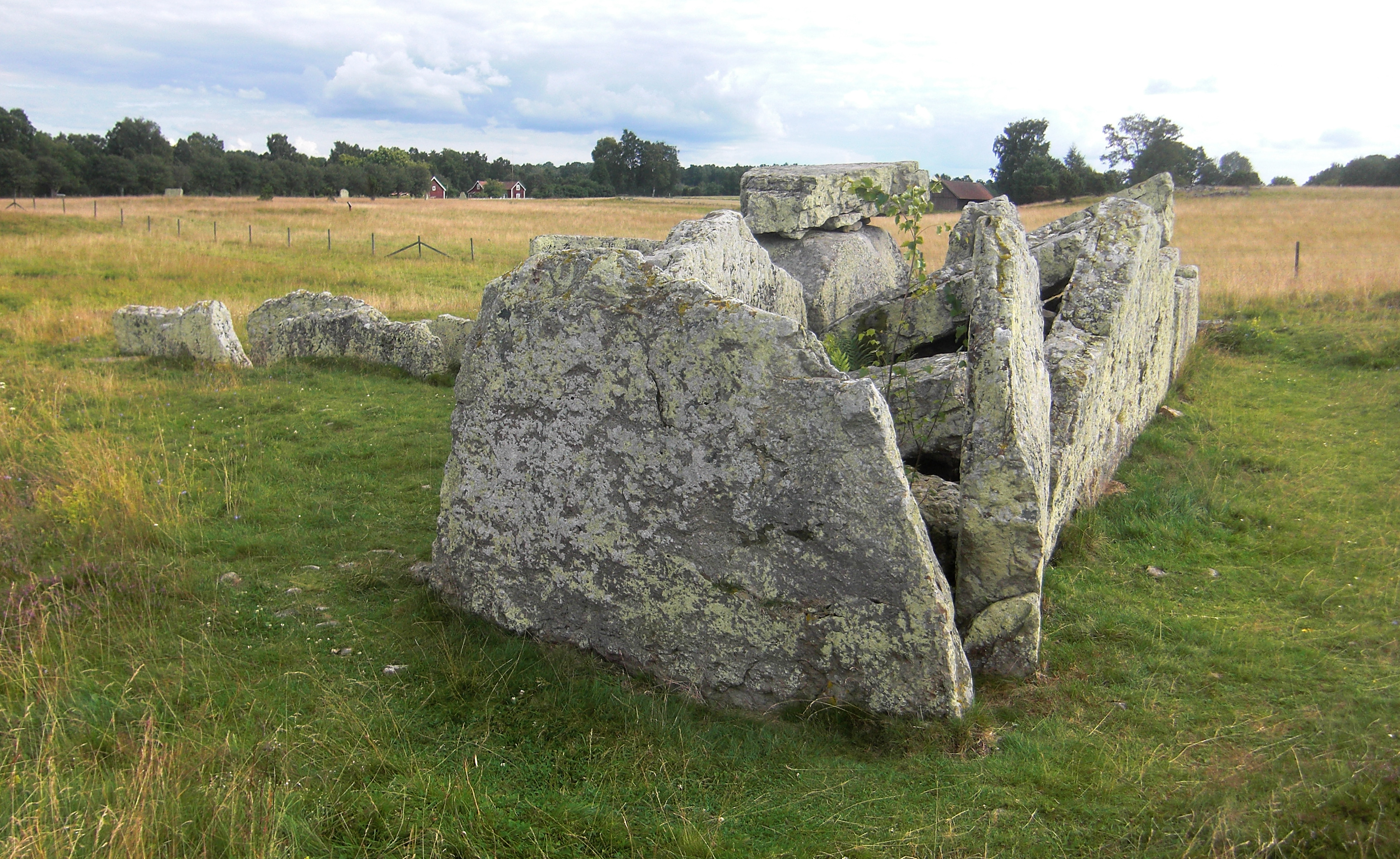 The Neolithic passage tomb "Girommen" (Raä-nr Hornborga 31:1) at Ekornavallen in Hornborga parish, Gudhem hundred, Falköping municipality, former Skaraborg county, Västergötland, Sweden.